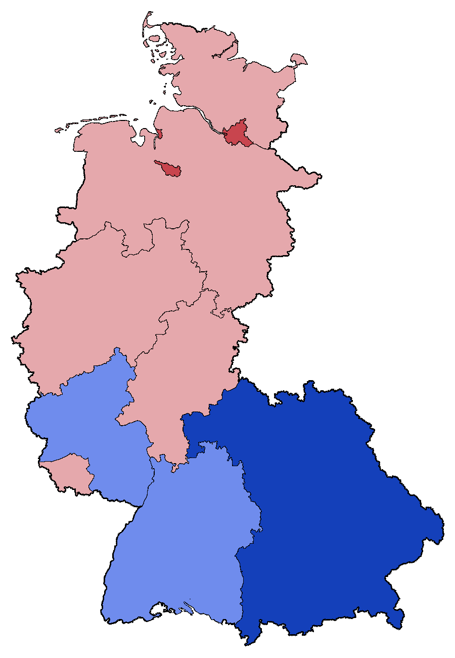 Electoral map showing the party list vote results (Zweitstimmen) of the 1980 Bundestag (West German parliament) elections by state. Red denotes states where the SPD had the the absolute majority of the votes; pink denotes states where the SPD had the plurality of votes; darker blue denotes states where CDU/CSU had the absolute majority of the votes; and lighter blue denotes states where CDU/CSU had the plurality of votes.